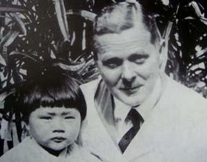 George Gushue-Taylor, a missionary doctor who devoted his life to Leprosy patients in Taiwan.